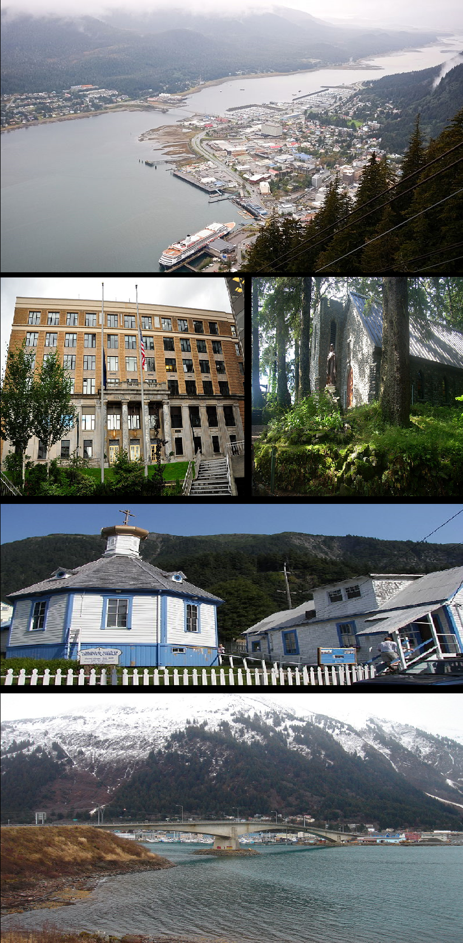 A montage image of some landmarks of Juneau, Alaska. Derived from: File:Alaska State Capitol Building.jpg by Jay Galvin on Flickr File:Downtown Juneau and Douglas Island.jpg by Mark Hogan on Flickr File:Saint Nicholas Russian Orthodox Church, Downtown Juneau, Alaska 3.jpg by Wknight94 File:Douglas Bridge.jpg by michaelh2001 on the English Wikipedia File:The Shrine of St. Therese.jpg by Xa'at on Flickr